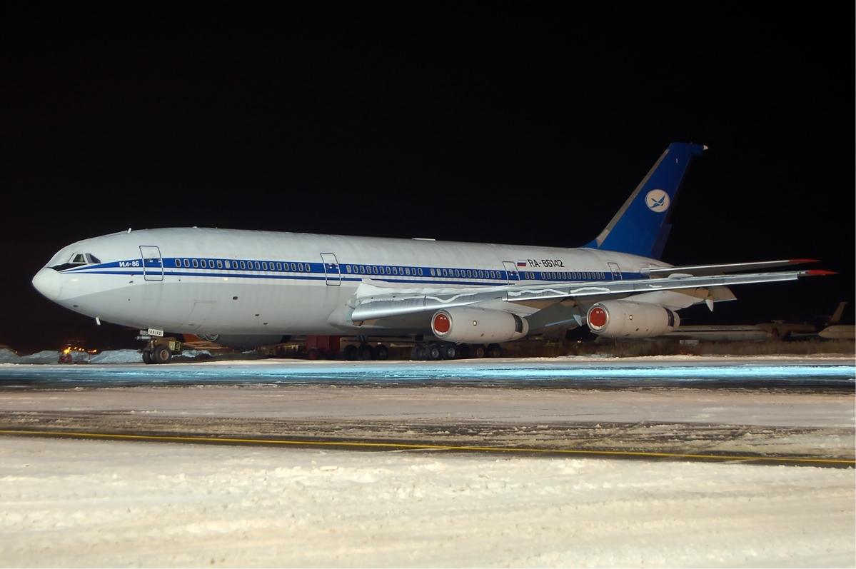 Kazan Air Enterprise Ilyushin Il-86